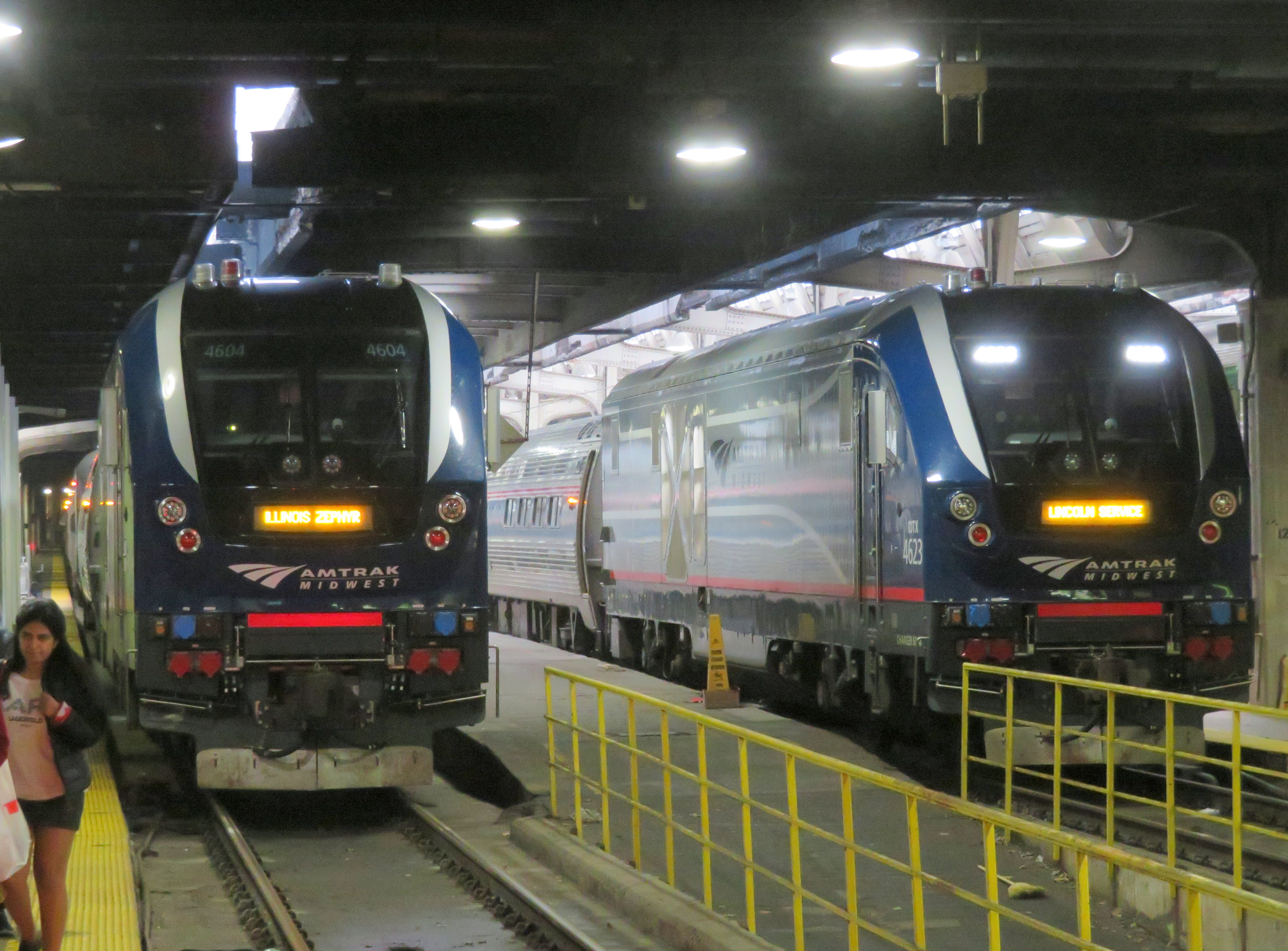 Illinois Zephyr and Lincoln Service trains with new Charger locomotives at Chicago Union Station in December 2018